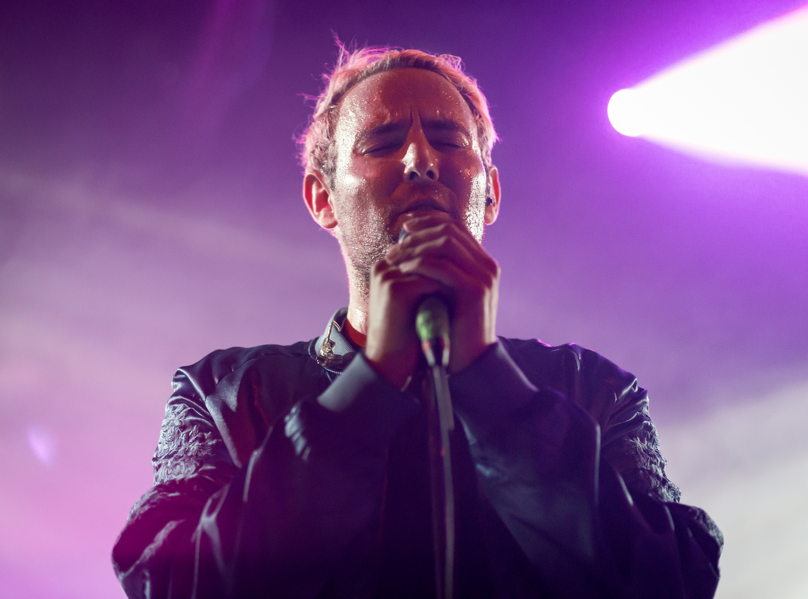 Morgxn performing live at Echoplex in Echo Park, Los Angeles, California, on Tuesday, November 14, 2017. Morgxn opened for Phoebe Ryan.